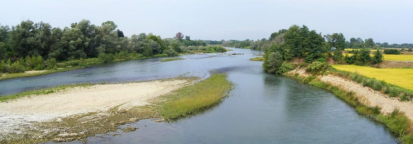 Cervo creek near Quinto Vercellese (VC, Italy)